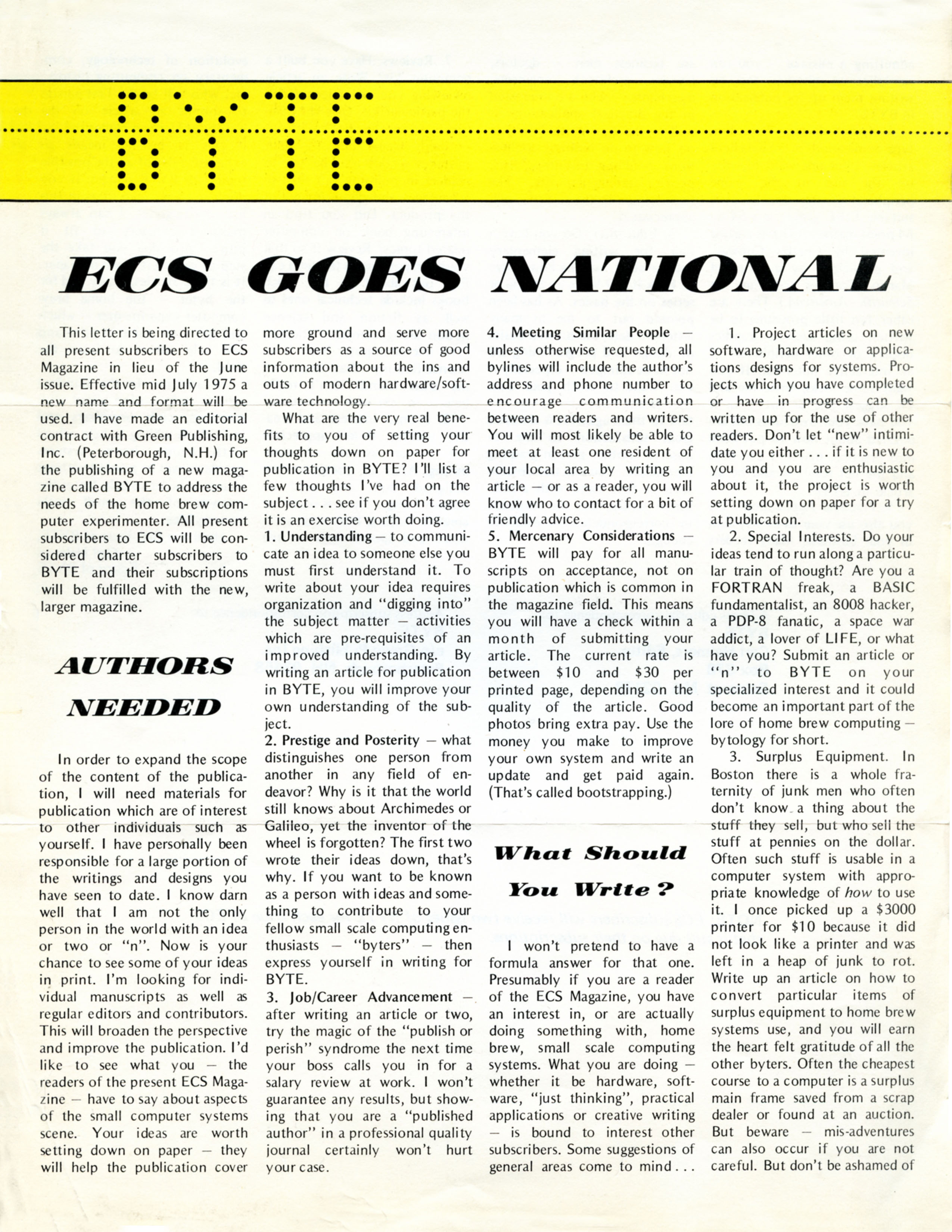 Subscription offer to the readers of Carl Helmers' ECS Magazine for the new BYTE magazine. This letter was mailed to the 400 or so subscribers of ECS Magazine in June 1975. ECS Magazine had published 5 issues from January 1975 to May 1975.